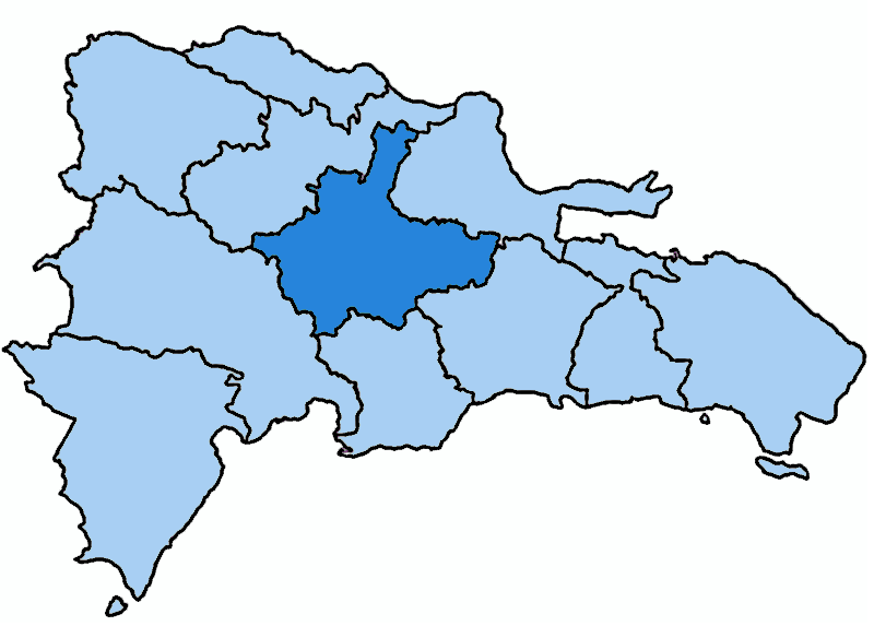 Includes provinces of La Vega, Hermanas Mirabal, Sánchez Ramírez and Monsñor Noel